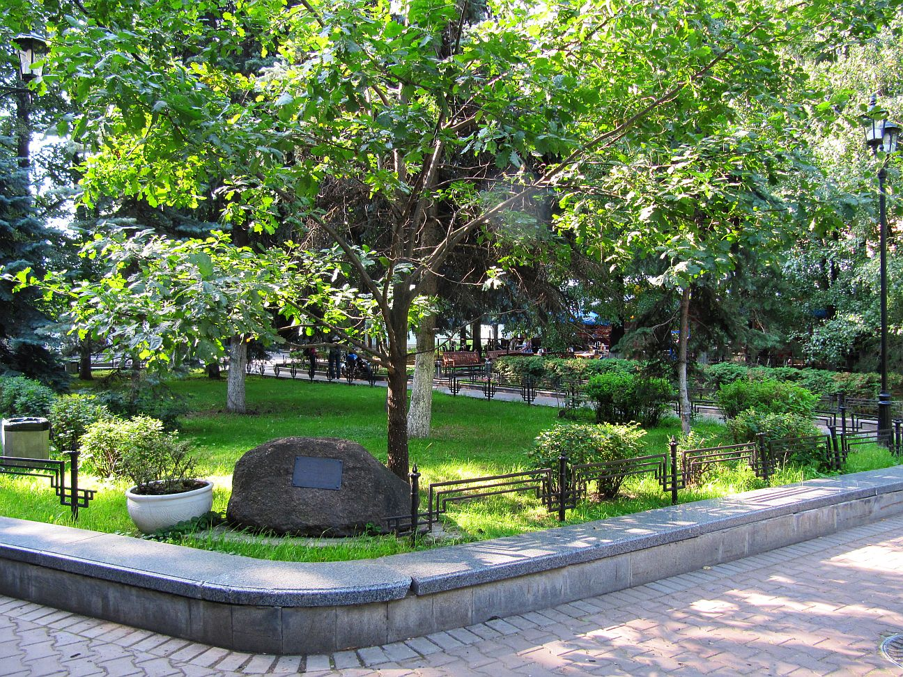 The tree (oak) of the Russian culture, planted actors of the creative unions in Moscow in 1995 in Aqarium Garden.